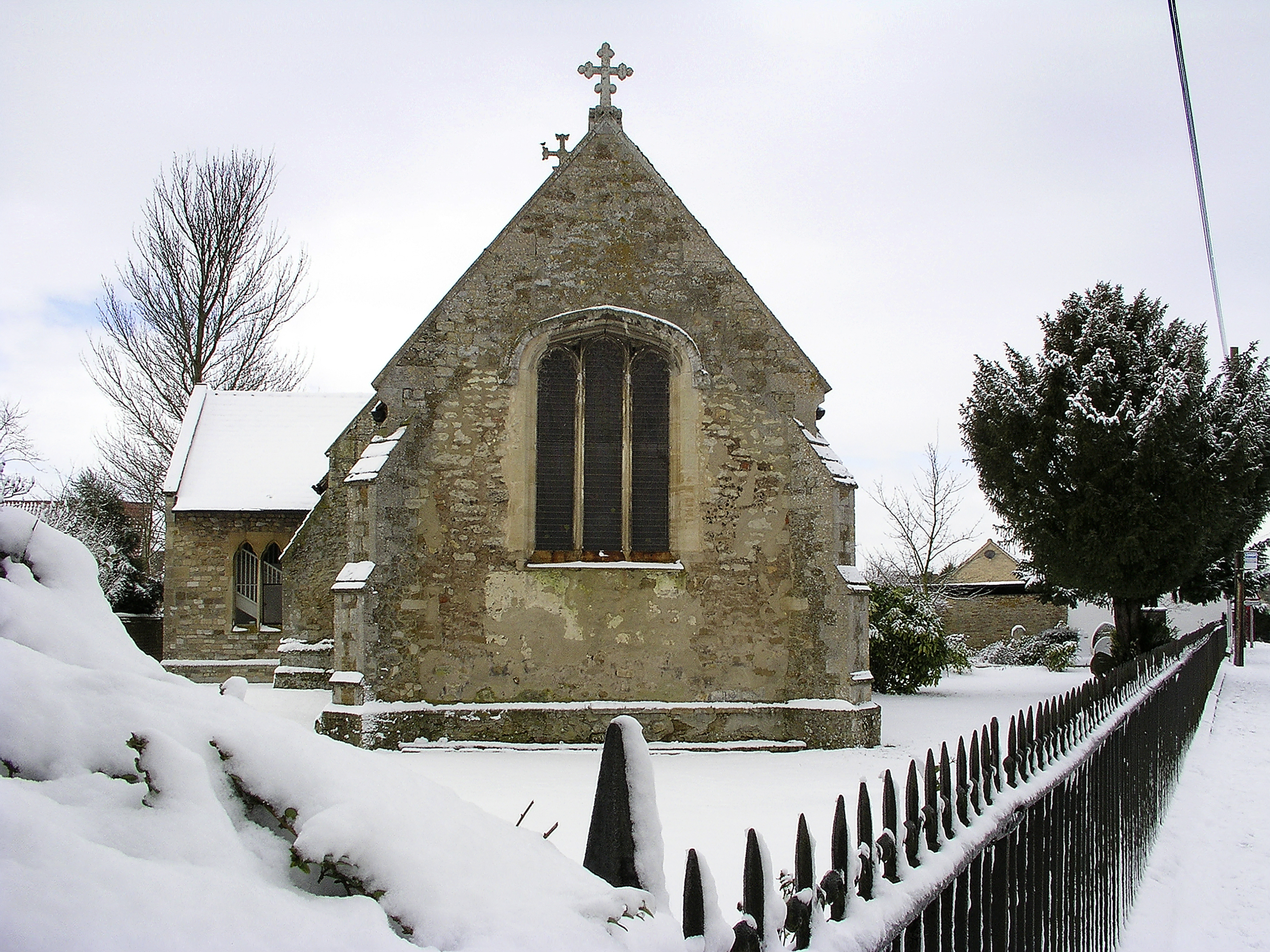 St George's church Little Thetford in the snow